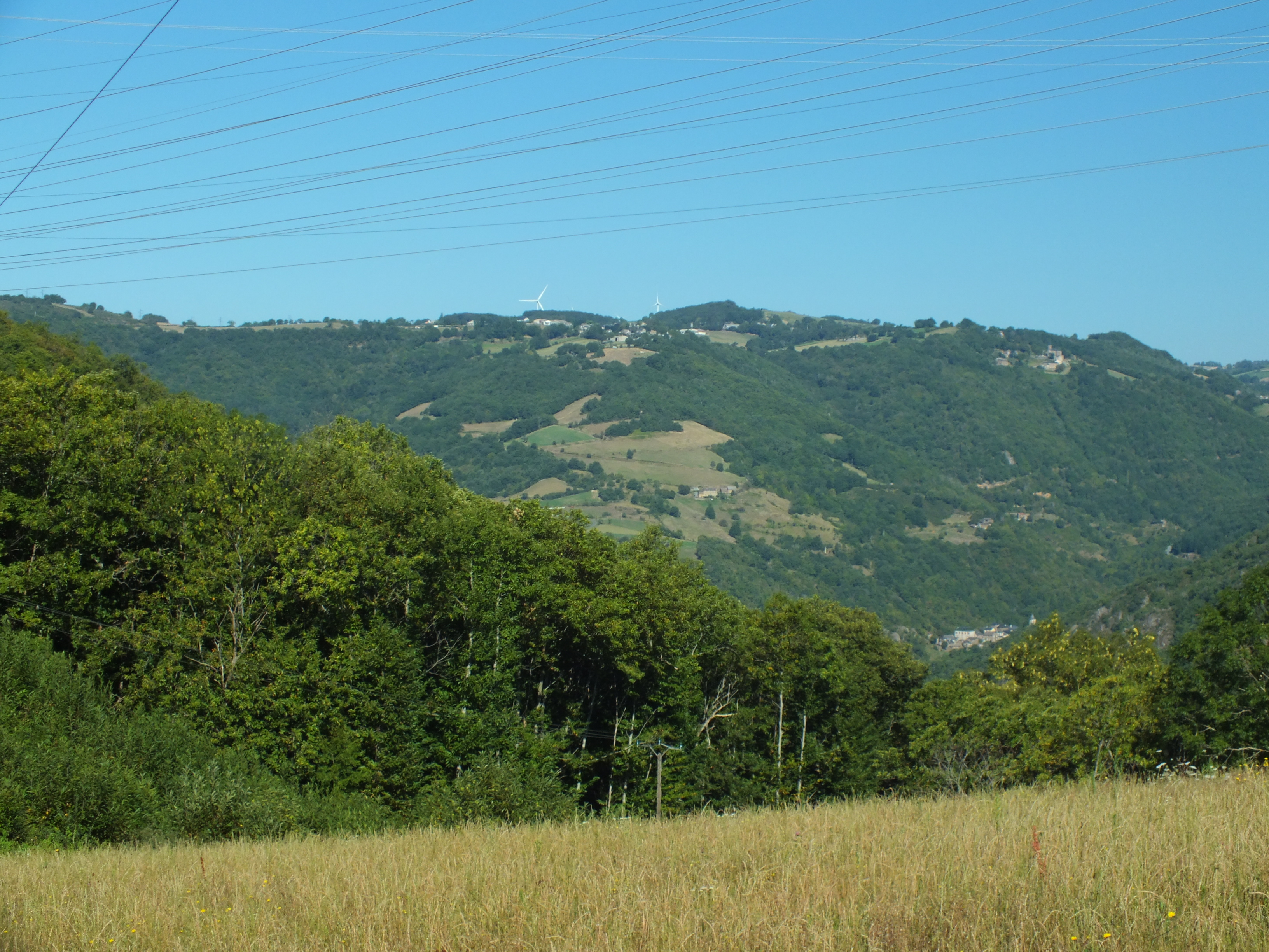 Le Planol is a village in the commune of Saint-Victor-et-Melvieu in southern Aveyron, in the Raspes de Tarn region. It hosts a switching station on the 400 000V grid, transforming down to 63 000V and 20 000V for local distribution, the valley is criss-crossed with power lines.